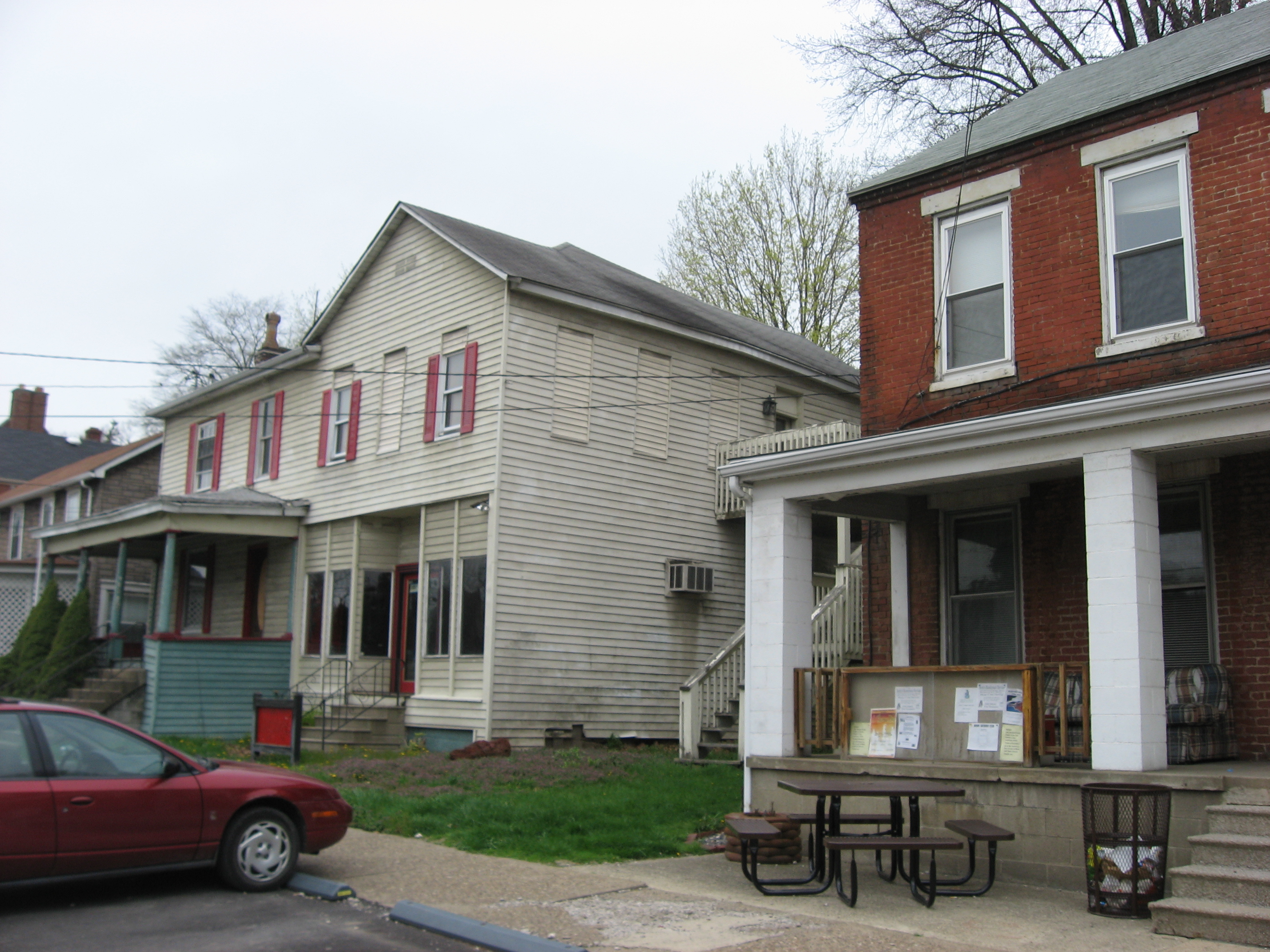 Commercial buildings and a house on the northern side of the 200 block of Main Street (West Virginia Route 67) in downtown Bethany, West Virginia, United States. This block is part of the Bethany Historic District, a historic district that is listed on the National Register of Historic Places.